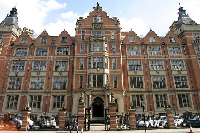 The Land Registry